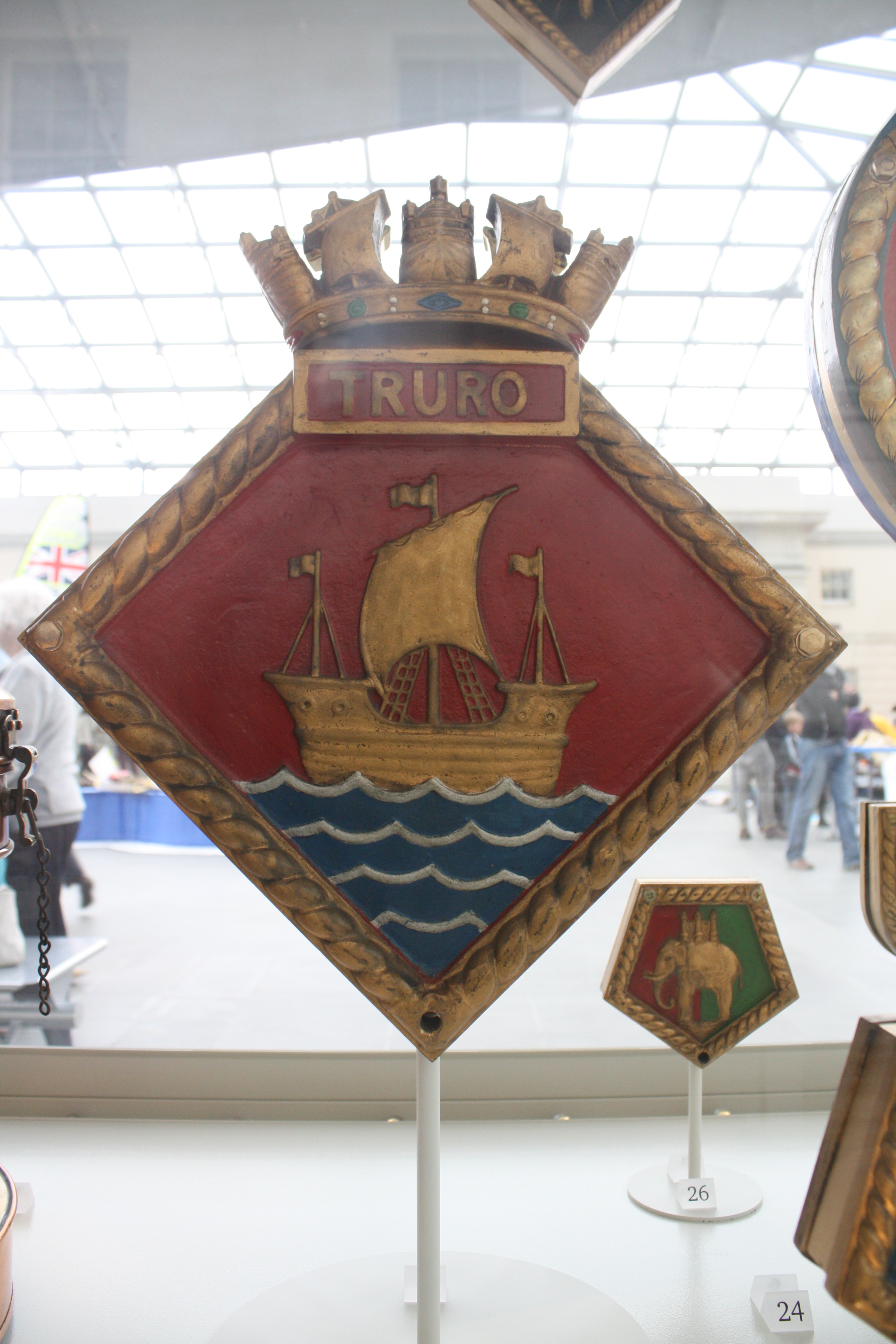 Ship heraldry at the NMM